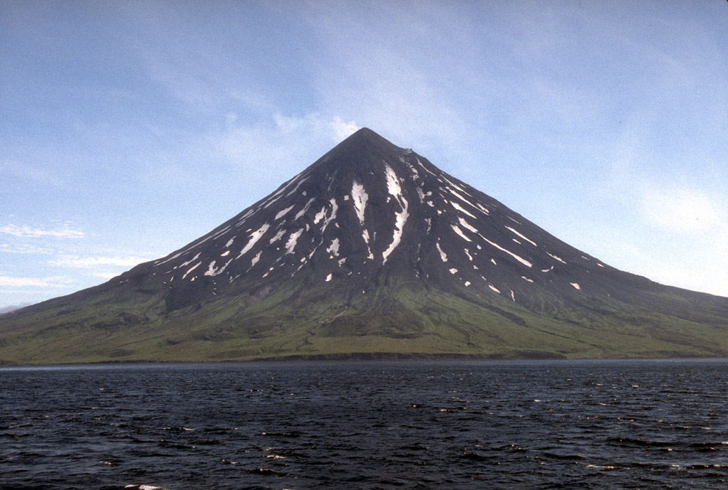 From the USGS caption: Mount Cleveland forms the western half of Chuginadak Island in the central Aleutian Islands. This symmetrical, 1,730-m (5,676 ft)-high stratovolcano and has been the site of numerous eruptions in the last two centuries; the most recent eruption occurred in 1994. In 1944, a U.S. Army serviceman was reportedly killed by an eruption from Mount Cleveland.